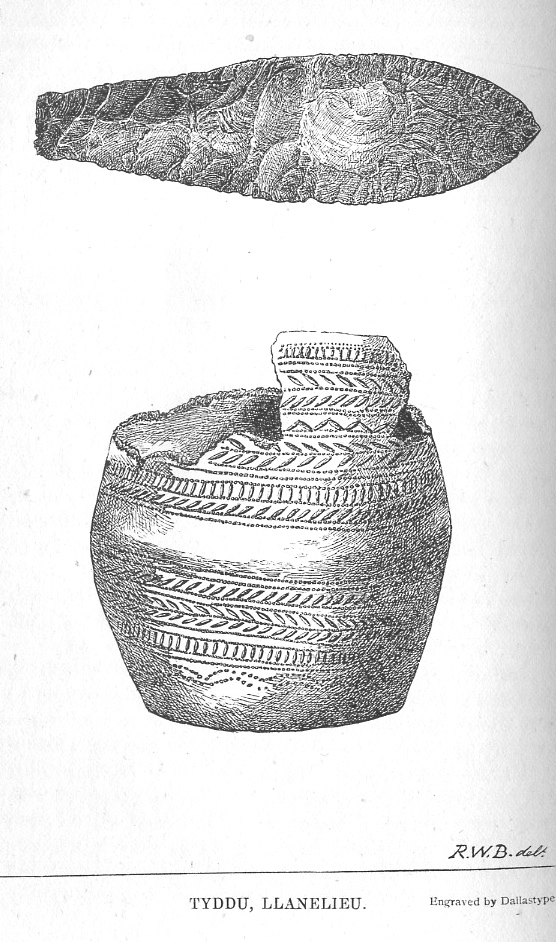 Beaker and Flint dagger from Tyddu, Llanelieu, Breconshire Arch Camb Vol 2 1872 21 22.jpeg